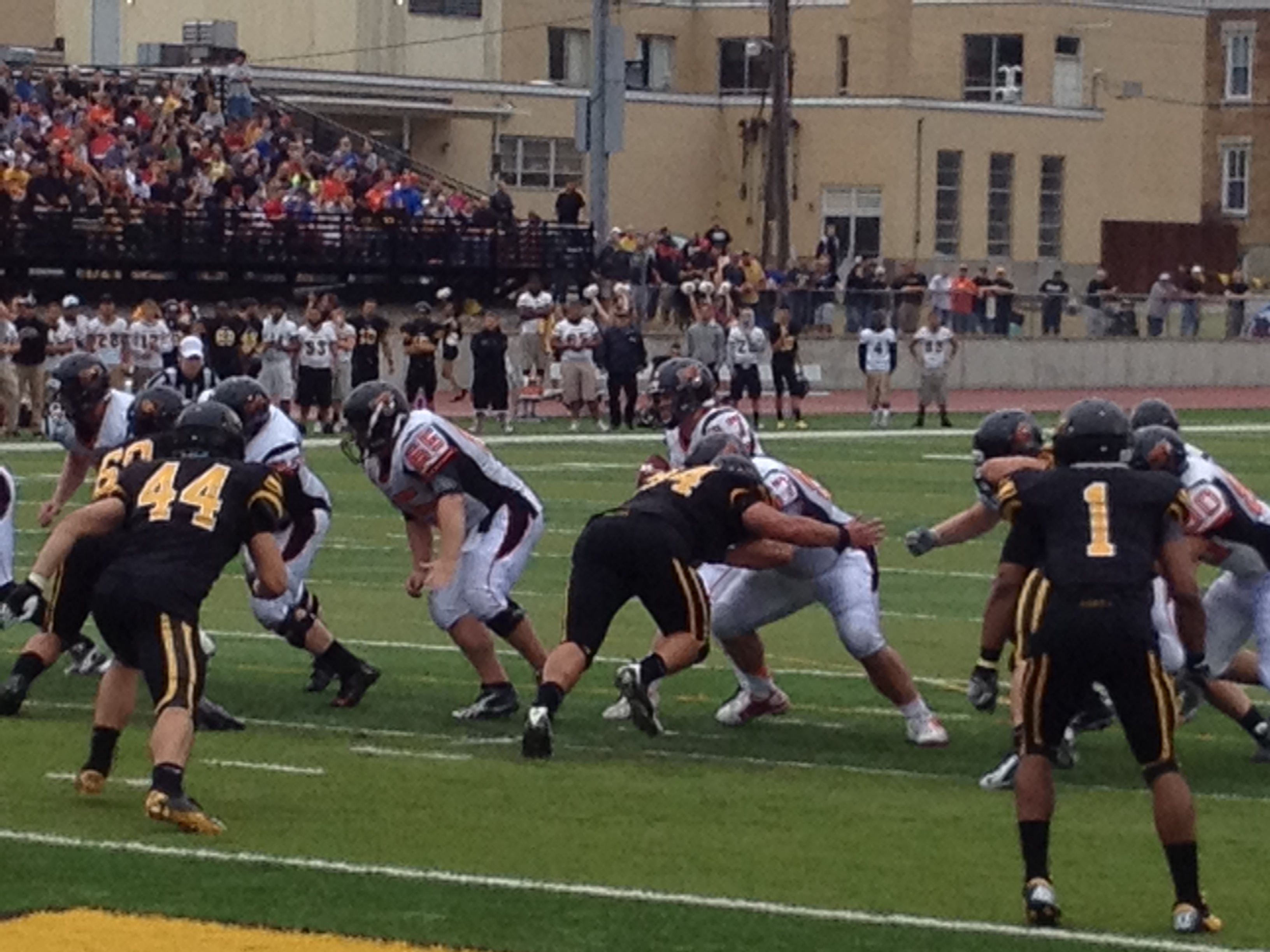 Baker University football offense lined up against Ottawa University